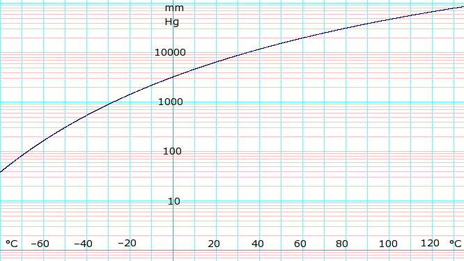 Subject: log plot of anhydrous ammonia vapor pressure as a function of temperature.